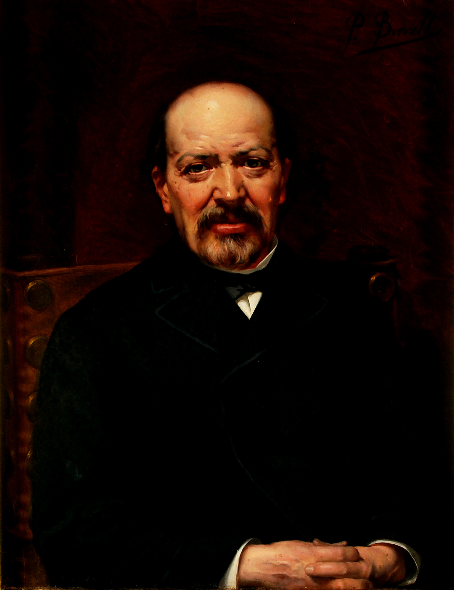 Lluís Cutchet i Font portrait